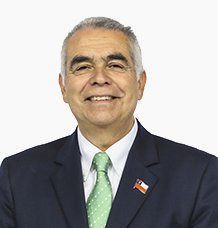 Subsecretario de Agricultura